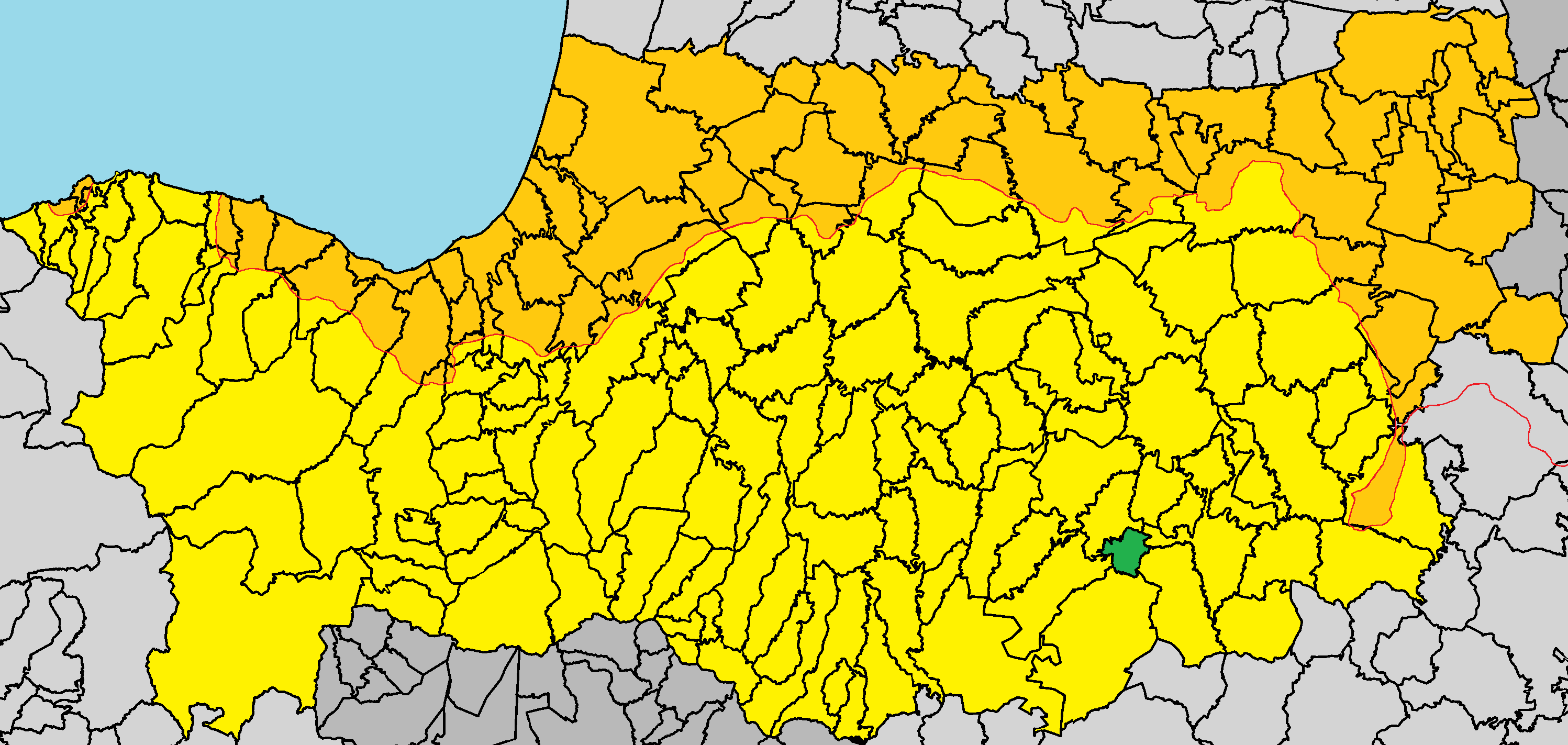 Kataliontas in Nicosia District (de jure).